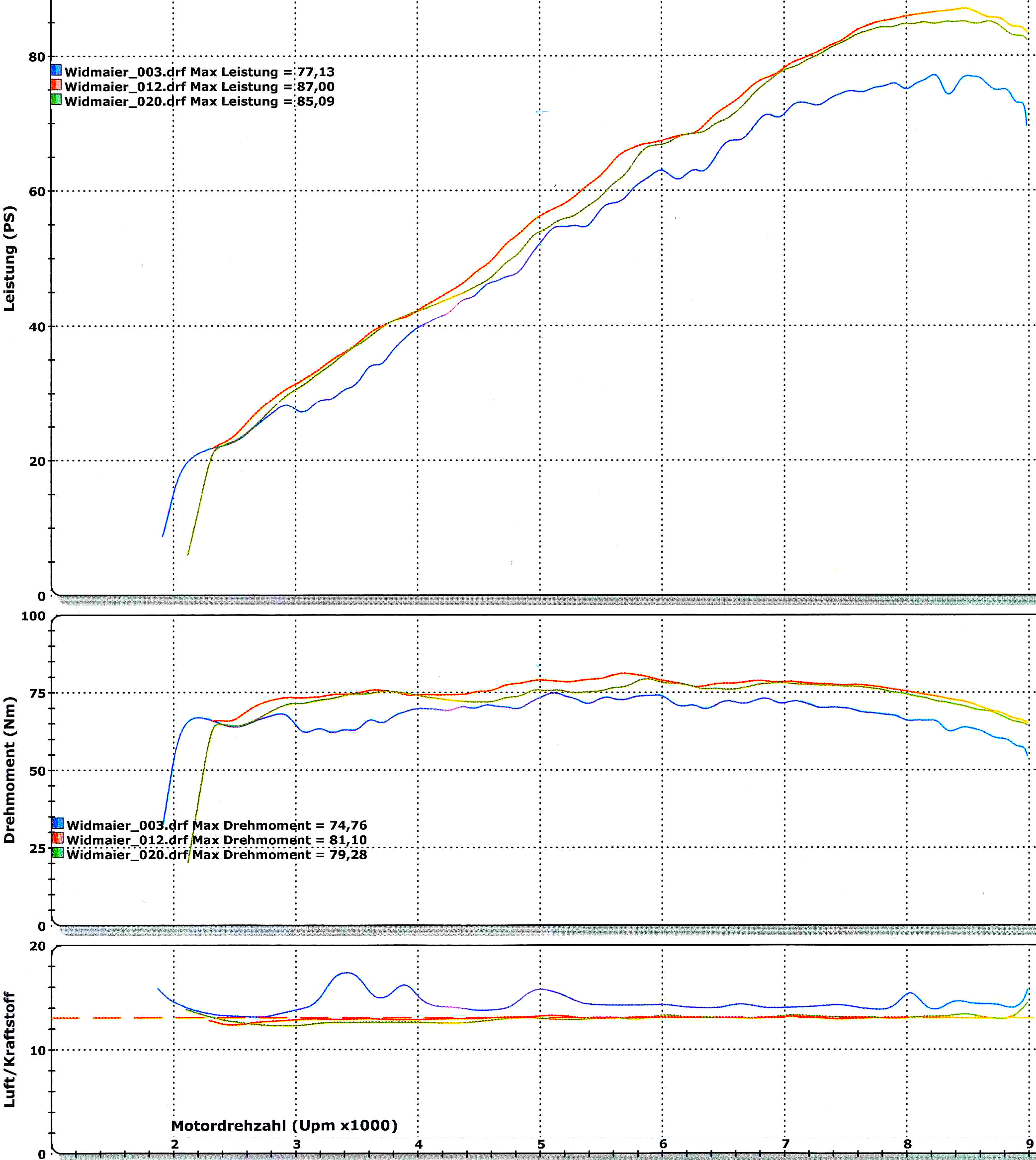 Tuning diagram of a BMW F 800 GS, blue stock BMW control electronic, red and greenn two profiles with a fine-tuned alternative motor control electronic